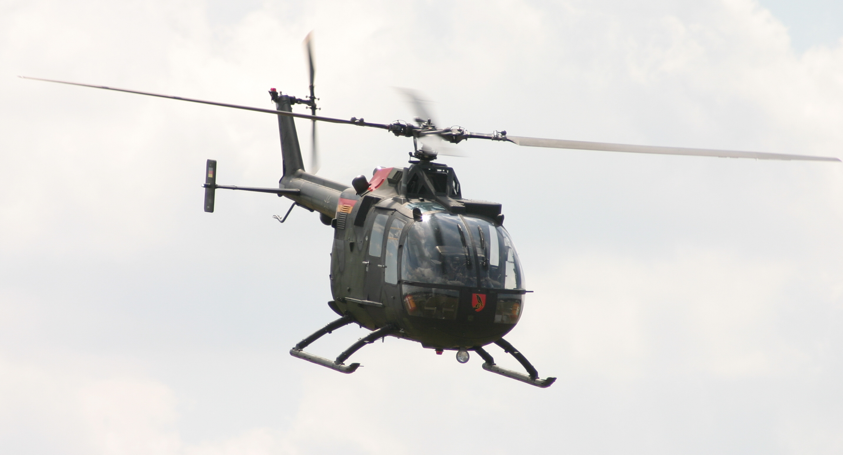 MBB Bo 105 during Góraszka Air Picnic 2007